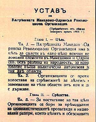 Statute of the Internal Macedonian-Adrianople Revolutionary Organisation (in Bulgarian)